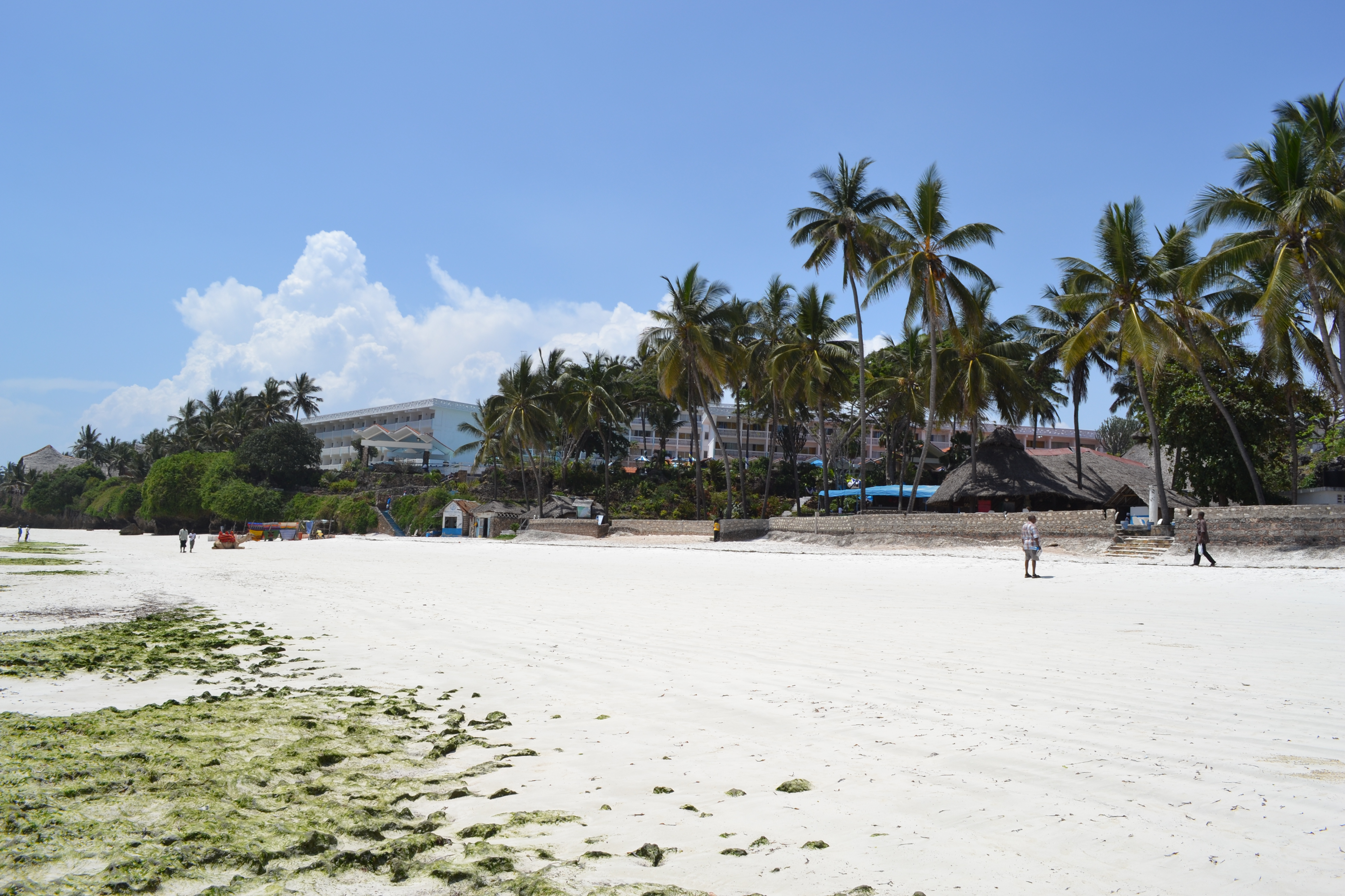 Mombasa Beach Hotel as viewed from Nyali Beach, Mombasa, Kenya.